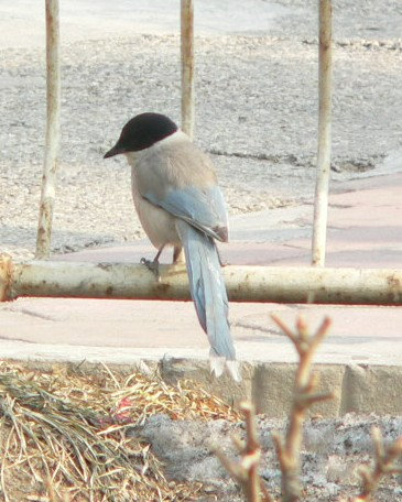 Asian Azure-winged Magpie in Beijing